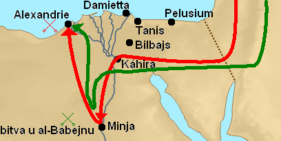 2 crusade invasion to Egypt